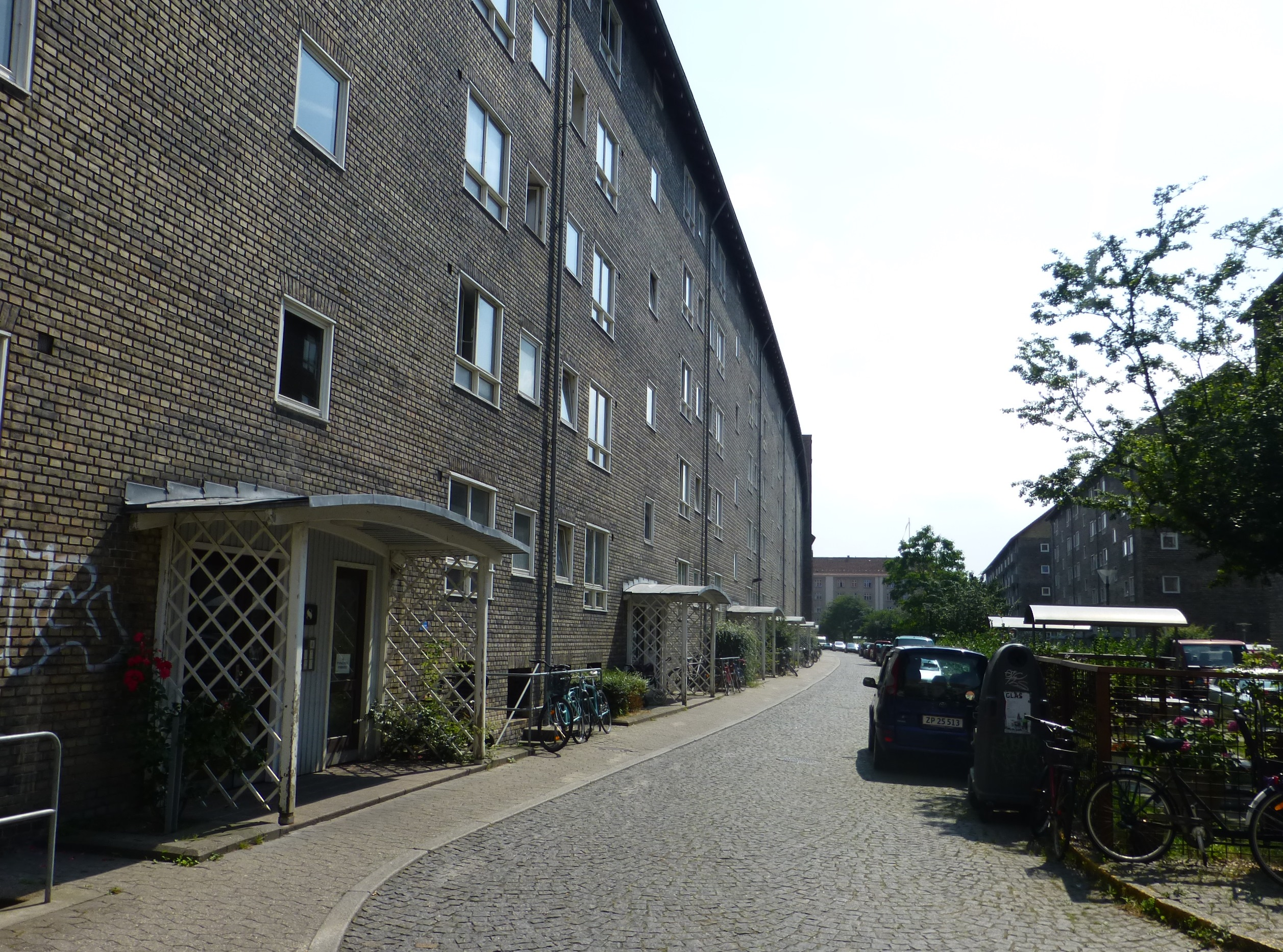 The street Nørrebro Vænge in Nørrebro in Copenhagen.